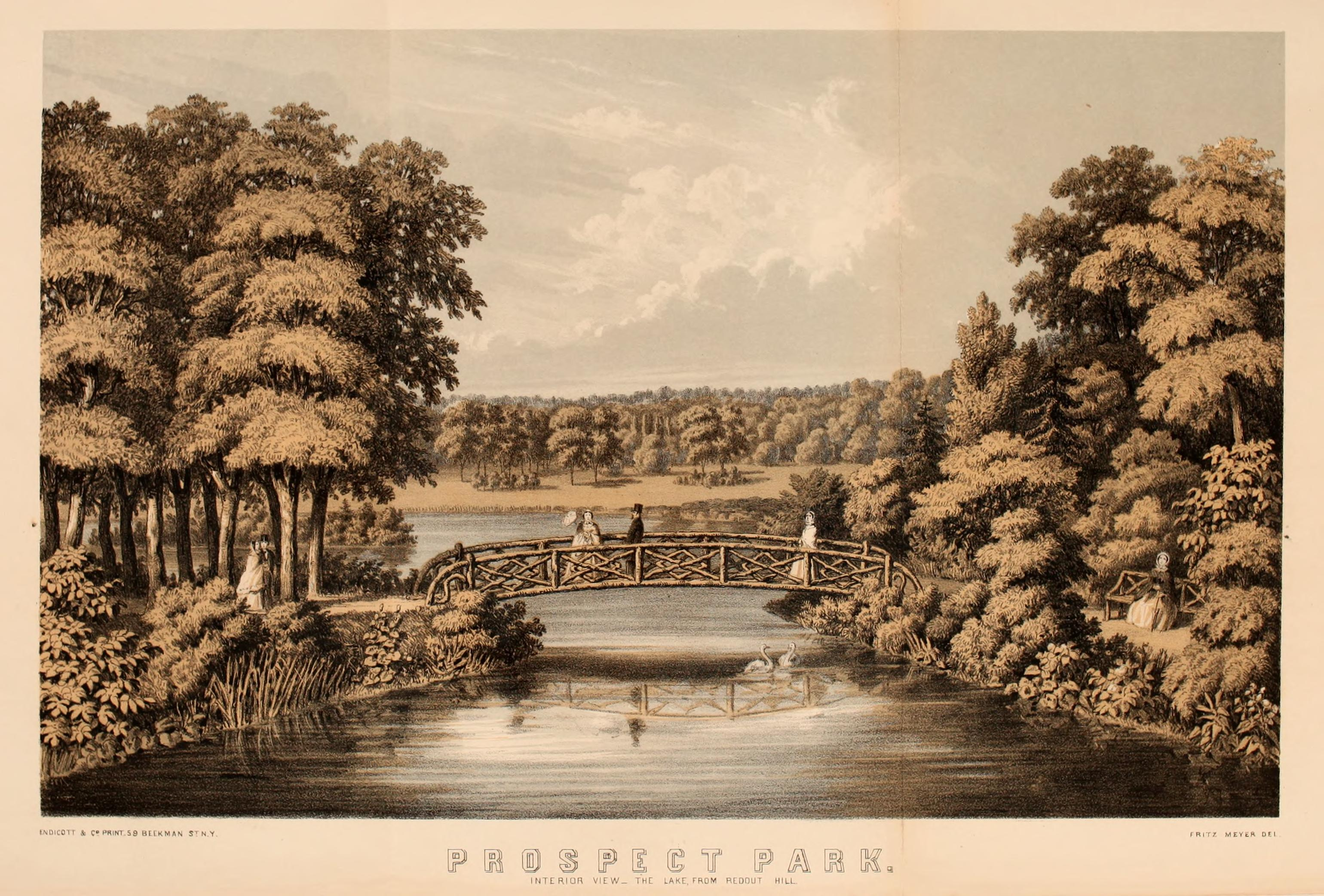 Annual report of the Commissioners of Prospect Park ...